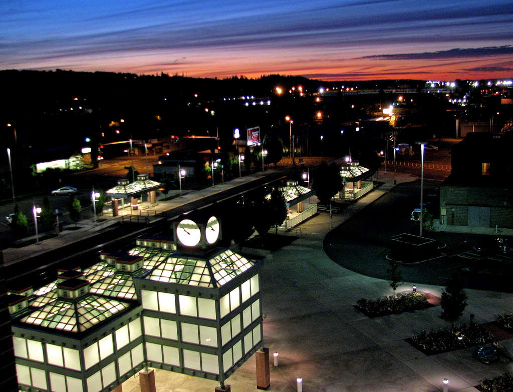 Auburn Train Station